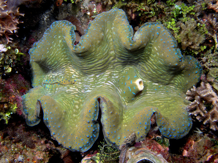 Tridacna cf. gigas, giant clam in East Timor